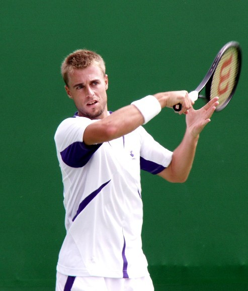 Oliver Marach @ Australian Open 2007.